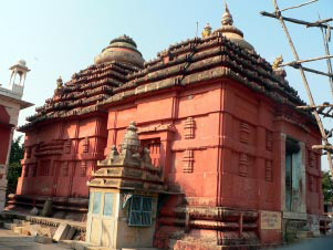 Digambara